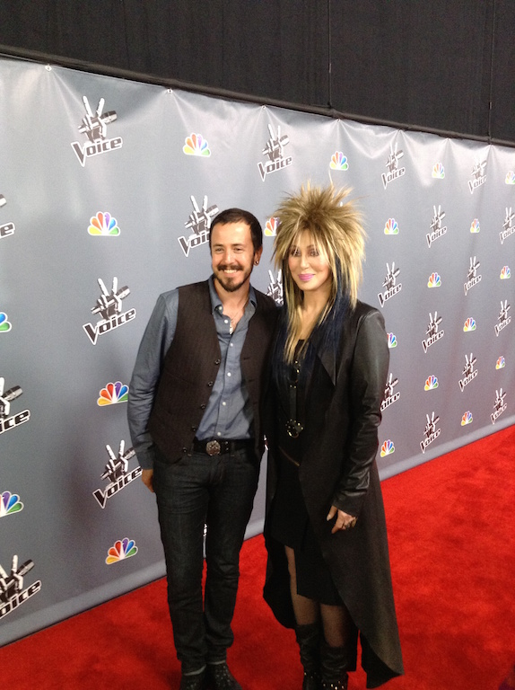 Photo taken after Cher performed "Woman's World," a song co-written by Morris.